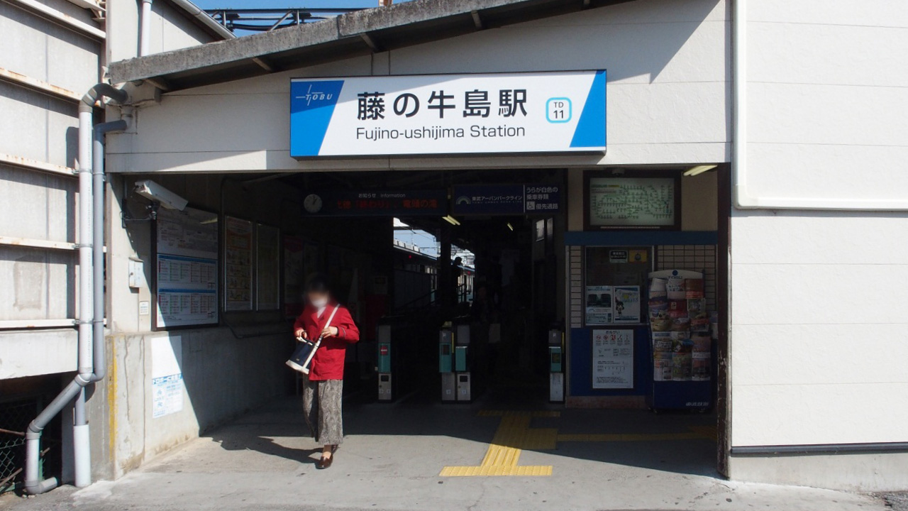 Fuji-no-Ushijima Station on the Tobu Urban Park Line in Saitama Prefecture, Japan